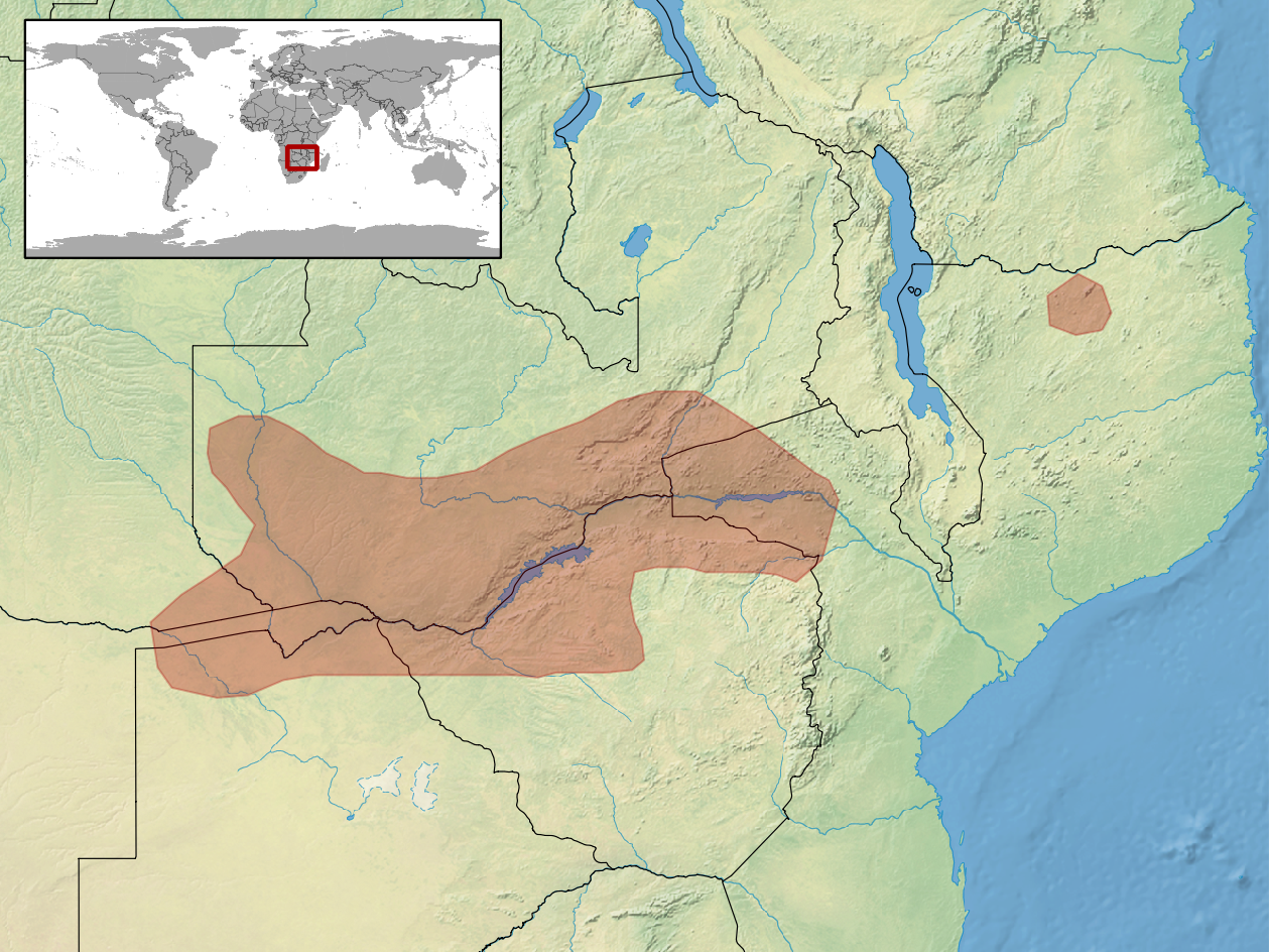 geographic distribution of Lygodactylus chobiensis (Native: Angola (Angola); Botswana; Mozambique; Namibia; Zambia; Zimbabwe)